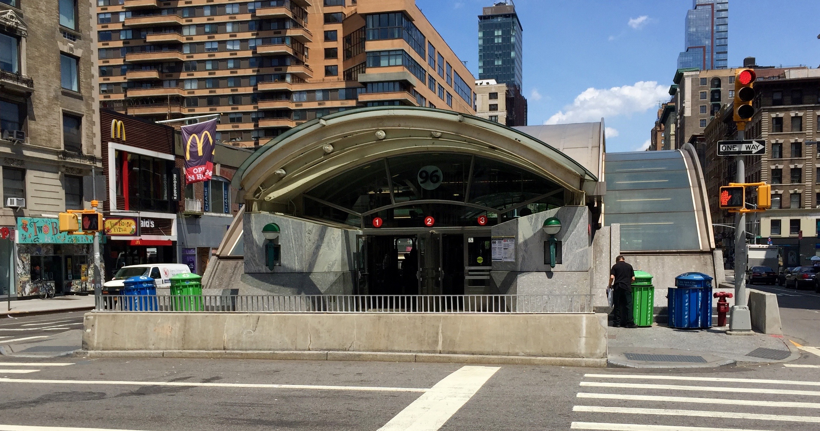 Stationhouse on 96th Street on the 1.